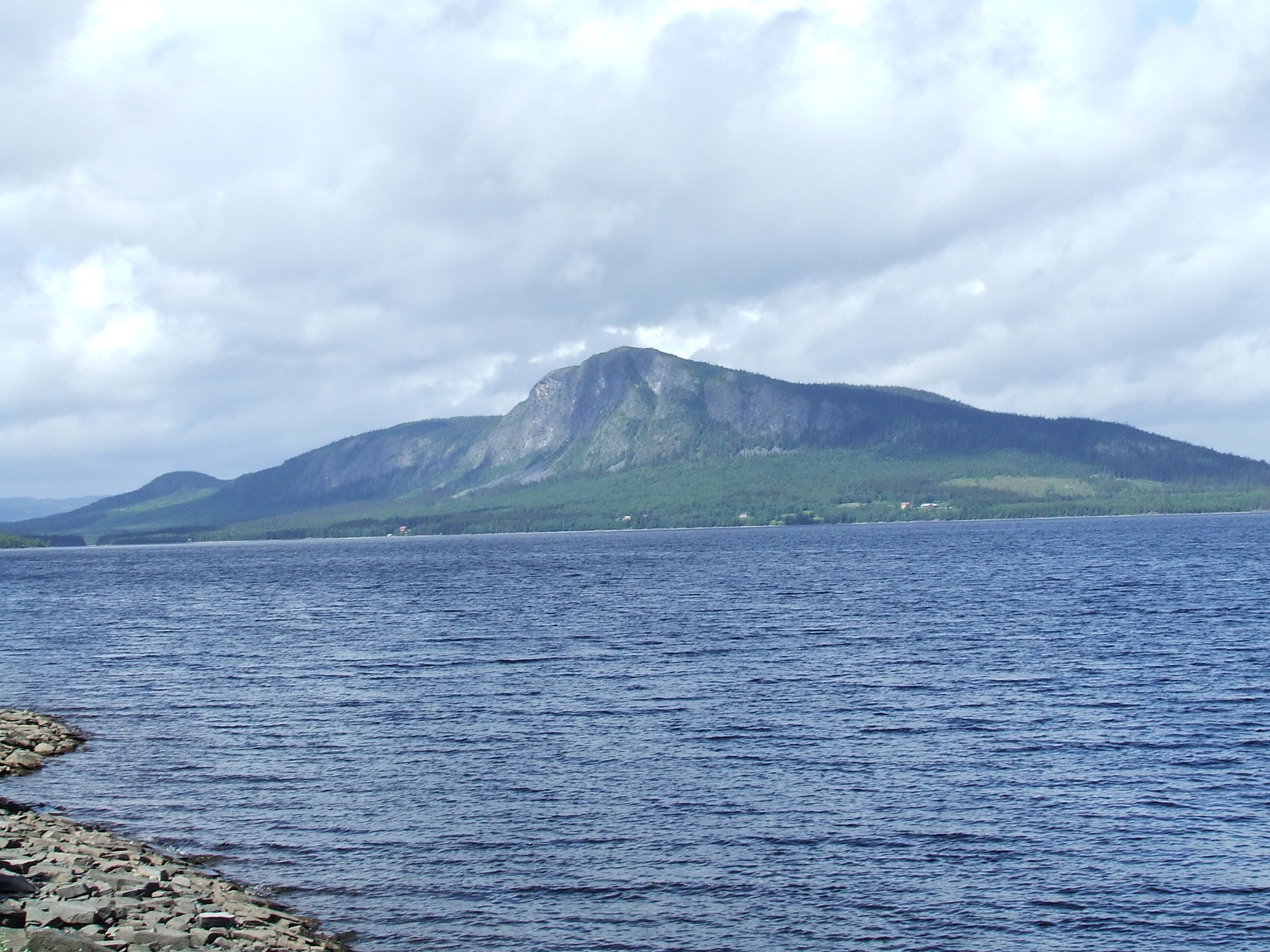 Kalberget viewed from the south east. The lake Ströms Vattudalen in the foreground.